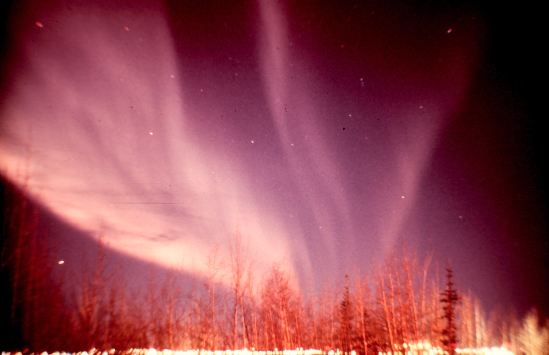 Aurora borealis in vicinity of Anchorage